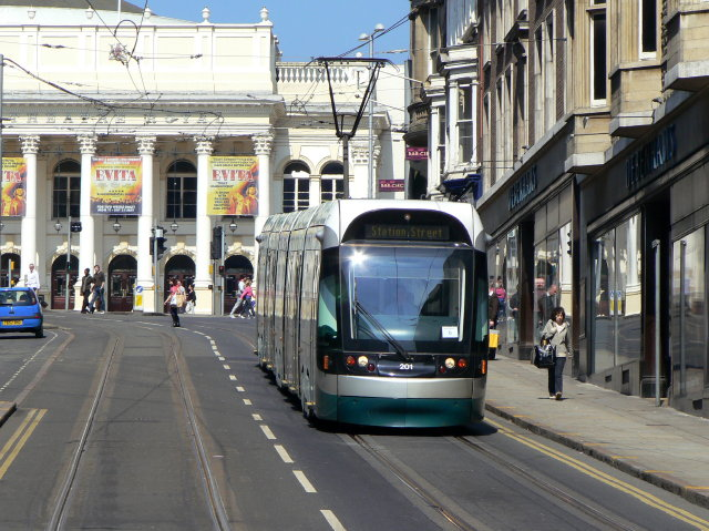 Descending Market Street This is one of the steepest sections of Nottingham's tramway.